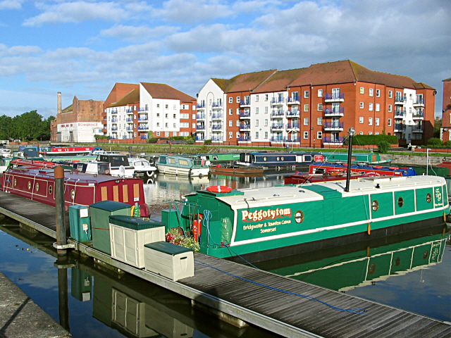 Bridgwater Docks Bridgwater Docks, now a marina. The first stage of an abortive project to link the Bristol Channel with the south coast by canal.